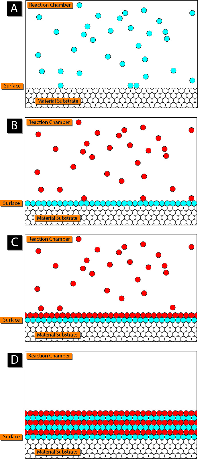 This is a schematic of the ALD process